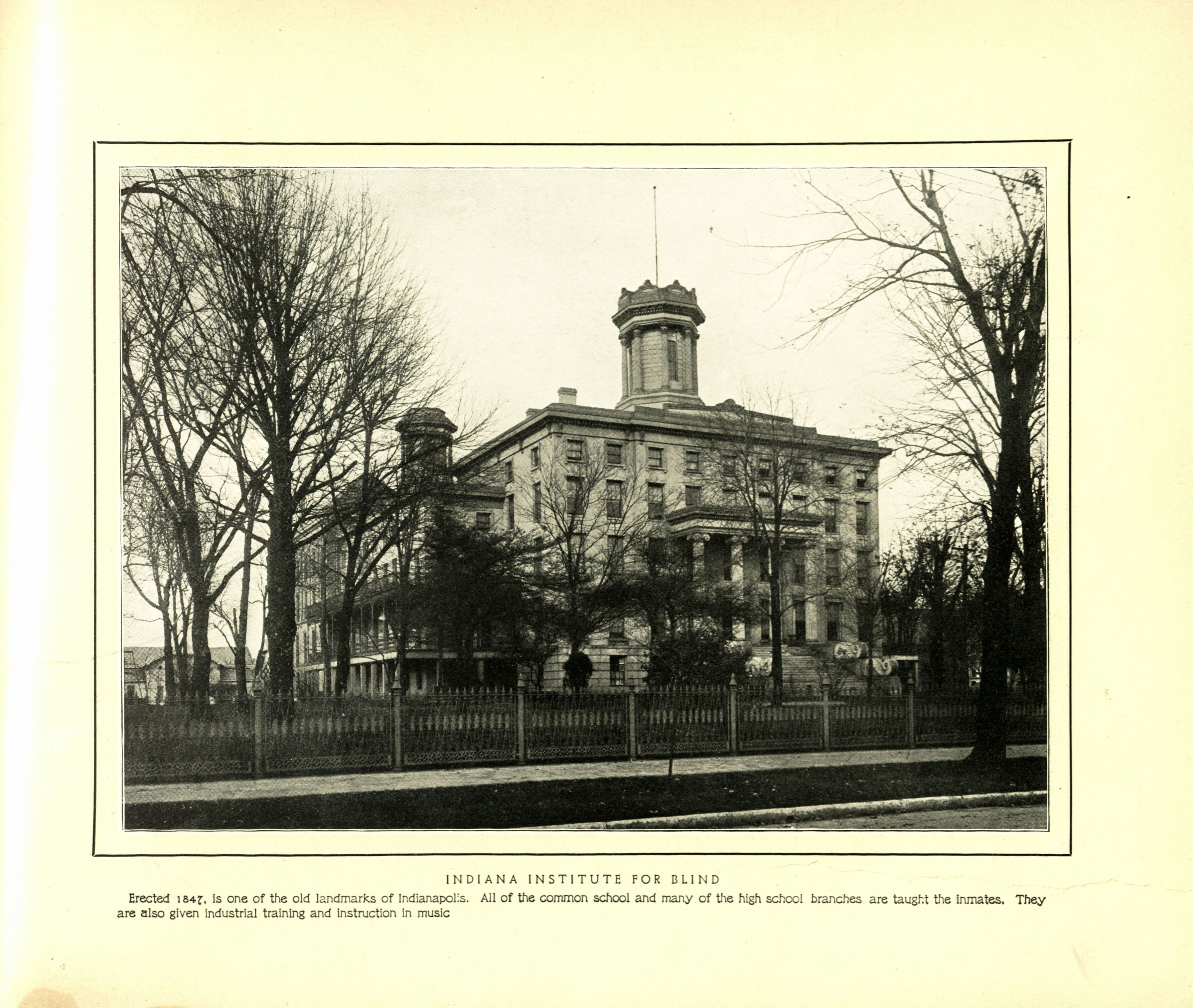 Collection contains photographs of architecture, residences, and the city of Indianapolis.